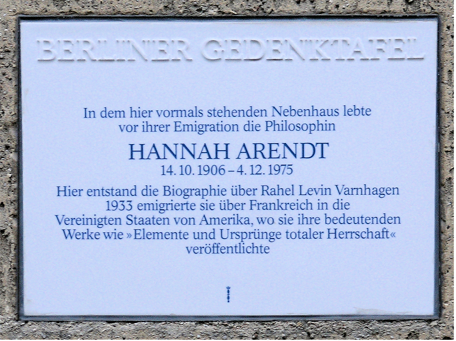 Berlin memorial plaque, Hannah Arendt, Opitzstraße 6, Berlin-Steglitz, Germany